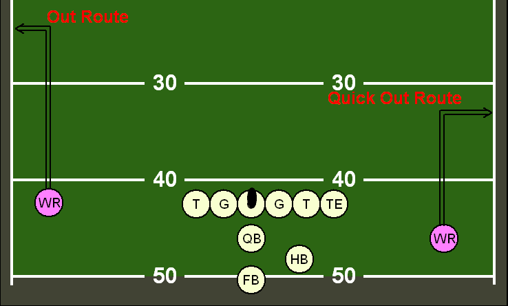 out route